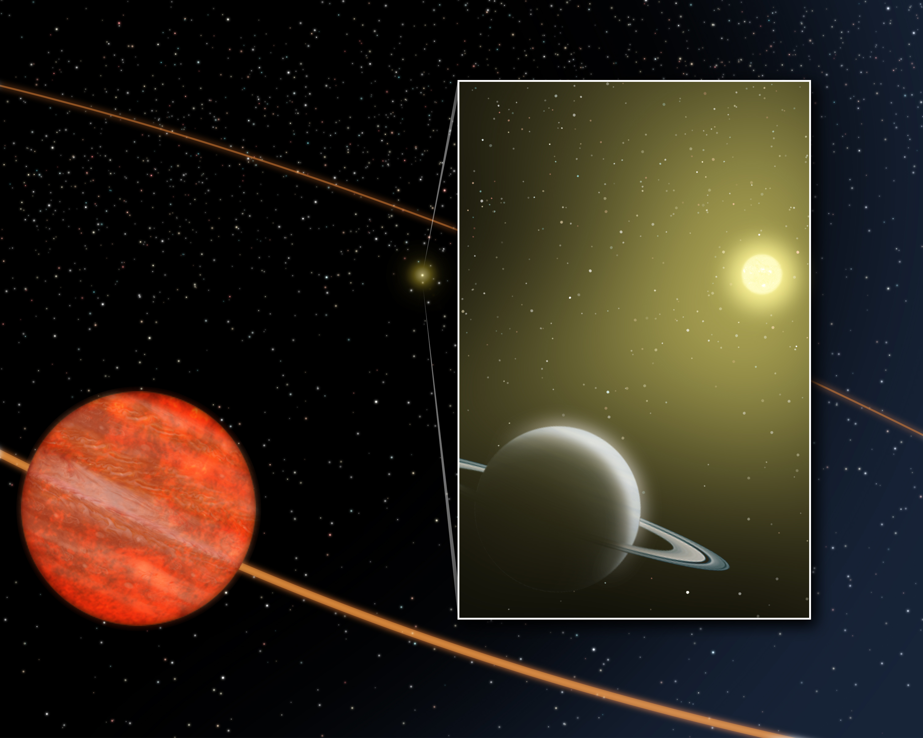 This is an artist's concept of the star HD 3651 as it is orbited by a close-in Saturn-mass planetary companion and the distant brown dwarf companion discovered by Spitzer infrared photographs. The Saturn-mass planet was discovered through Doppler observations in 2003. Its orbit is very small, the size of Mercury's, and is highly elliptical. The gravity of the distant brown dwarf companion may be reponsible for the distorted shape of the inner planet's orbit.